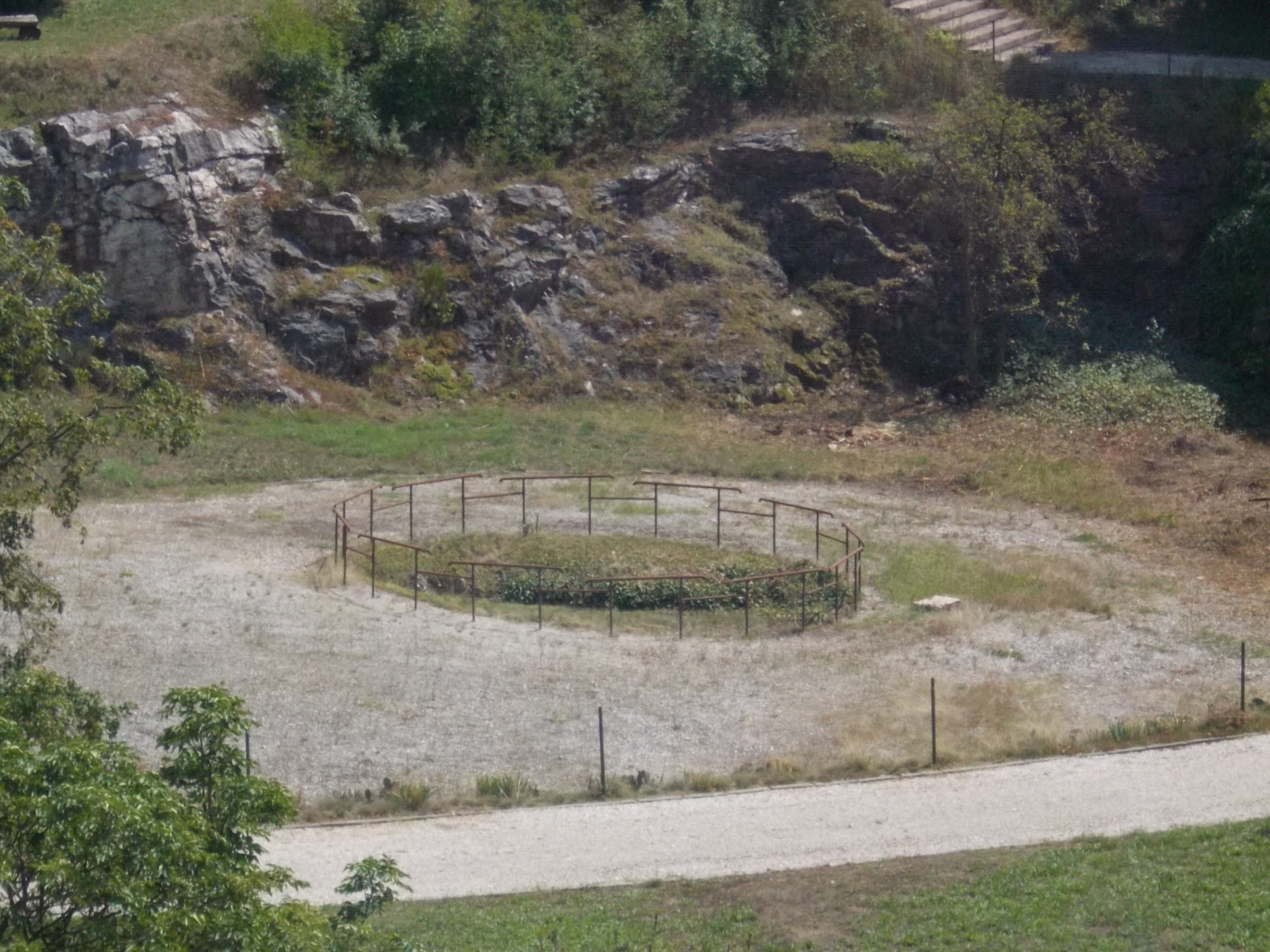 View from Calvary Hill to the cave Megalodus. Eötvös Loránd University. Geologist garden. Nature reserve and open air geology collection. Part of the Danube-Ipoly National Park - Fekete street, Tata, Komárom-Esztergom County, Hungary